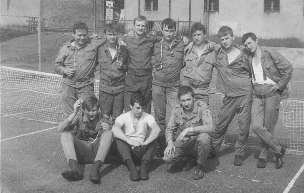 Border Protection Forces in Namyślin